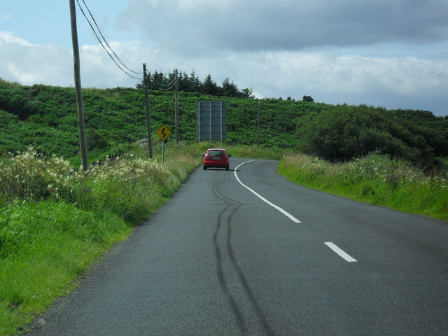 R231 at Kilbarron The R231 heading towards Ballyshannon near Kilbarron.